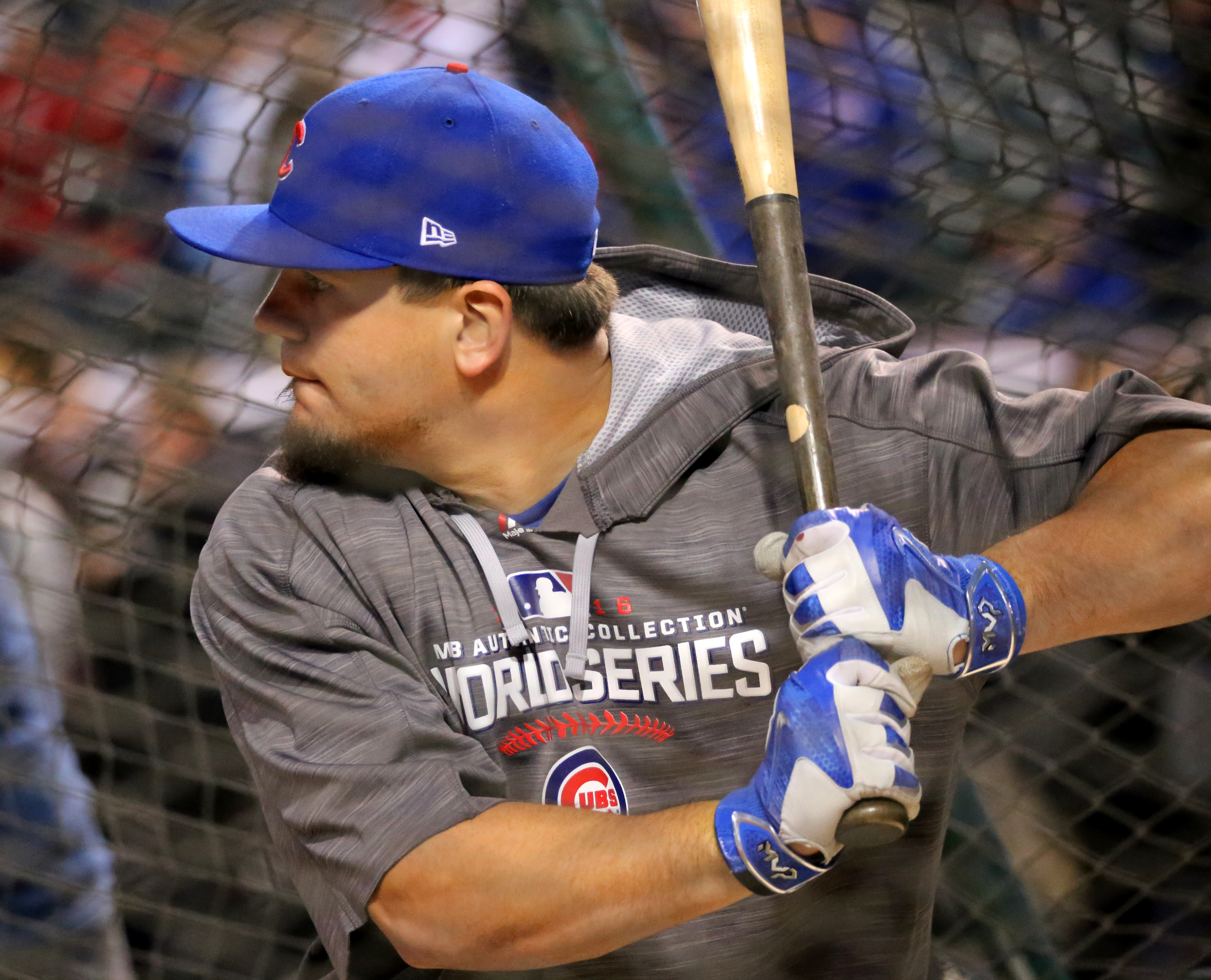 Cubs slugger Kyle Schwarber takes batting practice before WorldSeries Game 1.